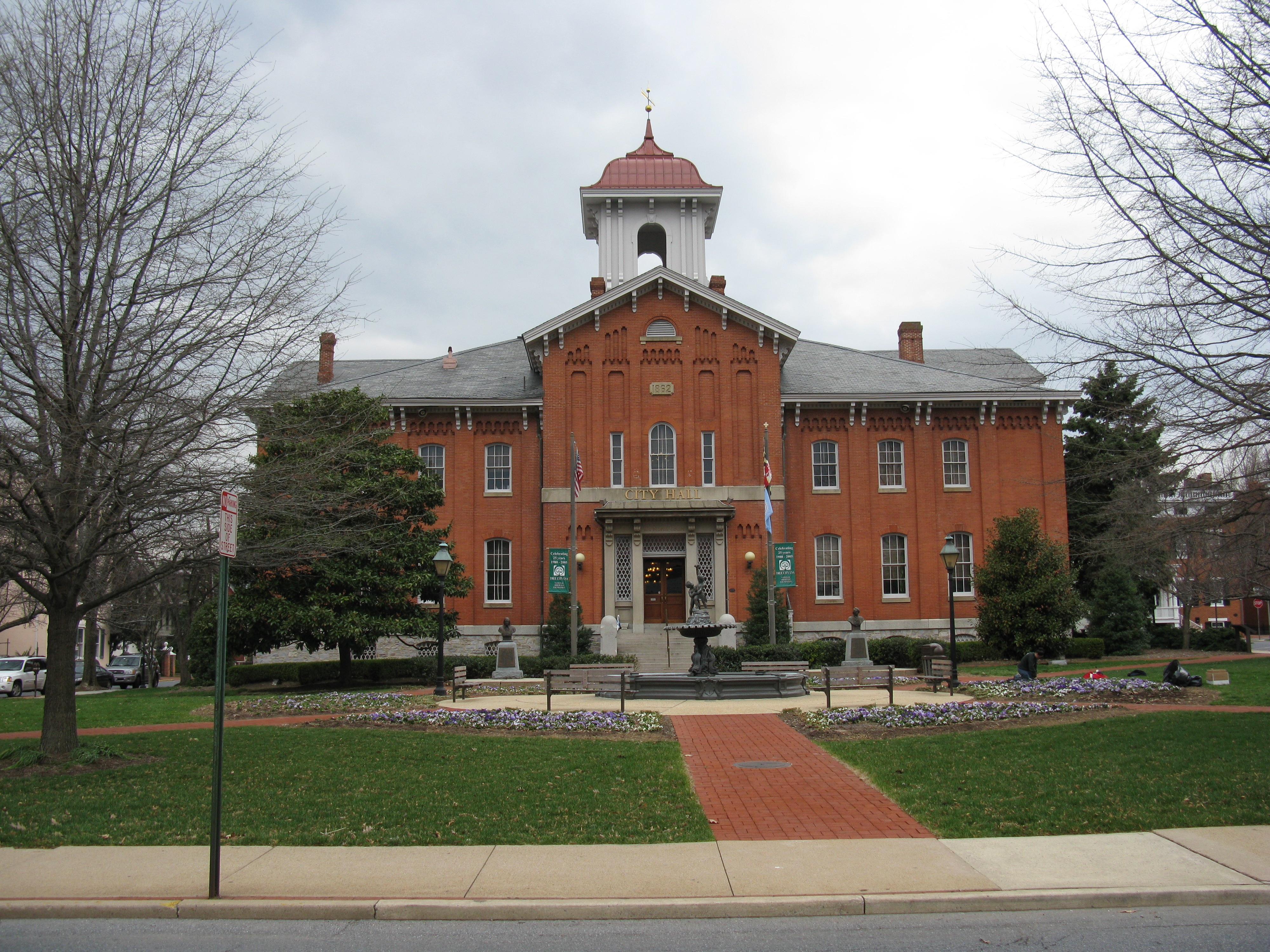 City Hall in Frederick, MD